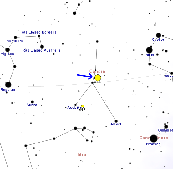 Praesepe map